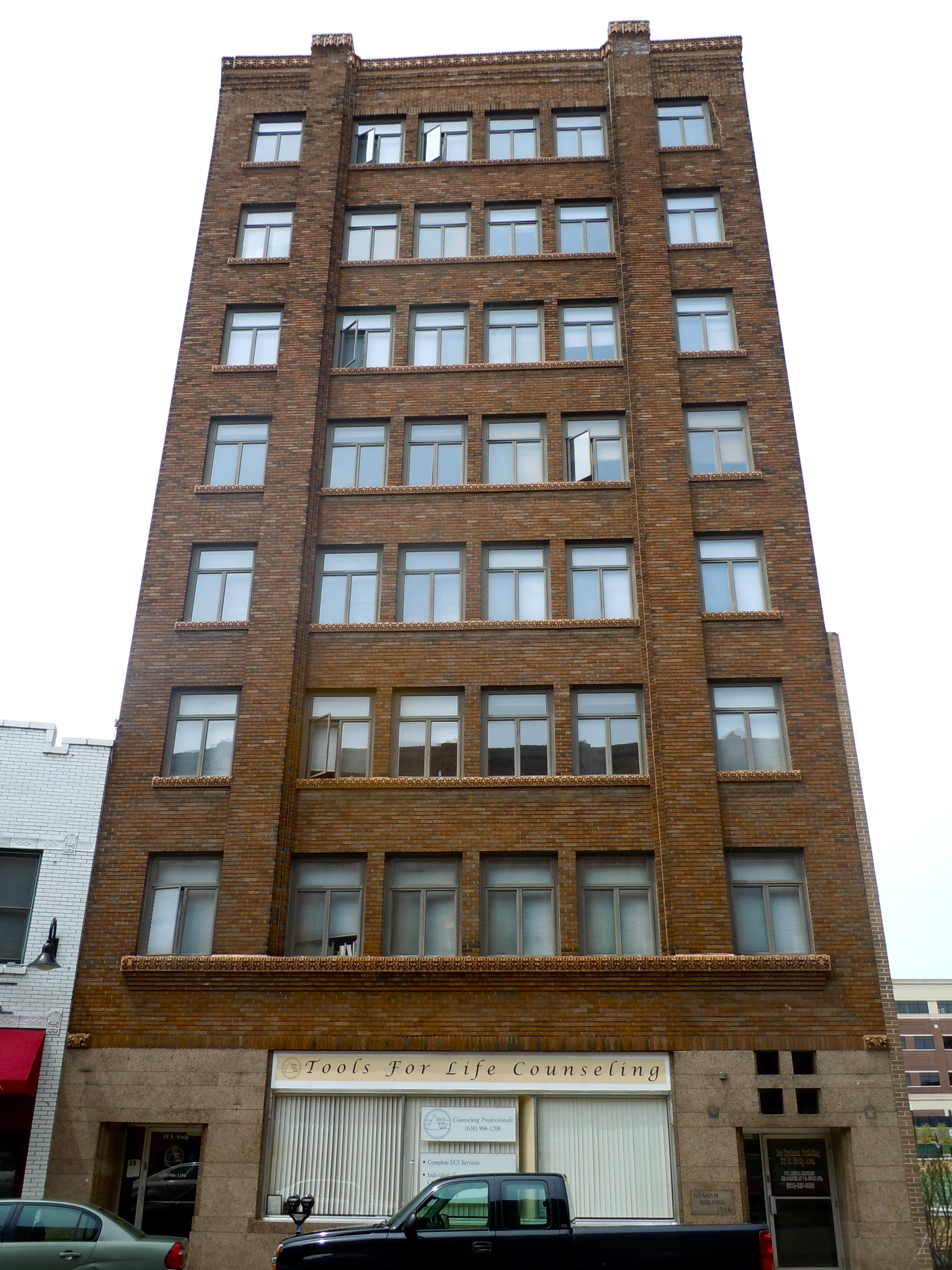 Graham Building on the NRHP since March 19, 1982. At 33 S. Stolp Ave., Aurora, Kane County, Illinois. Also part of the Stolp Island Historic District.